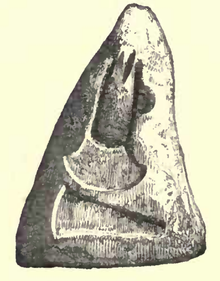 Stone Mould found at Lough Scur in county Leitrim